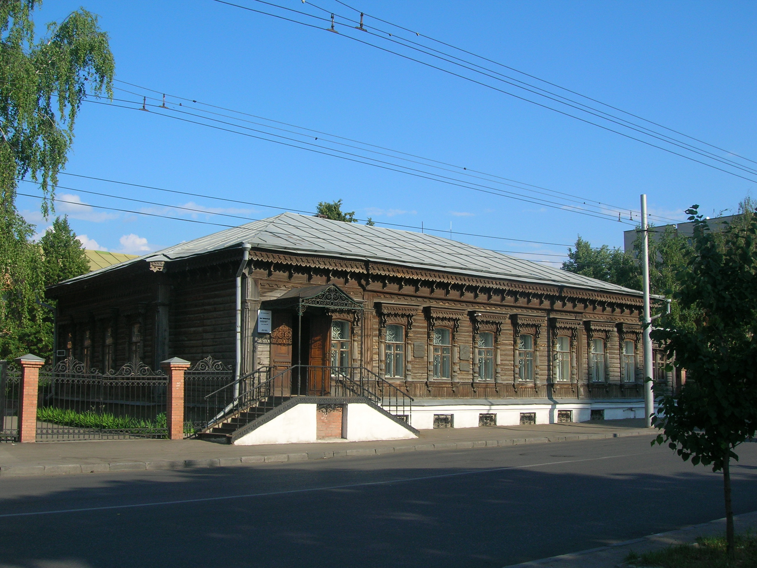 The Vsevolod Meyerhold Memorial Museum in Penza, Russia